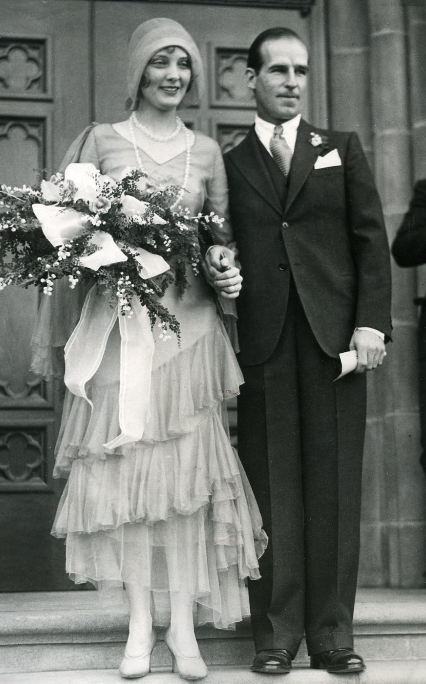 During the Agua Caliente Open, Harry Cooper flew to Los Angeles to marry a local woman, Emma Buchanan. He returned to the Open right after that, with a deficit of 18 holes.